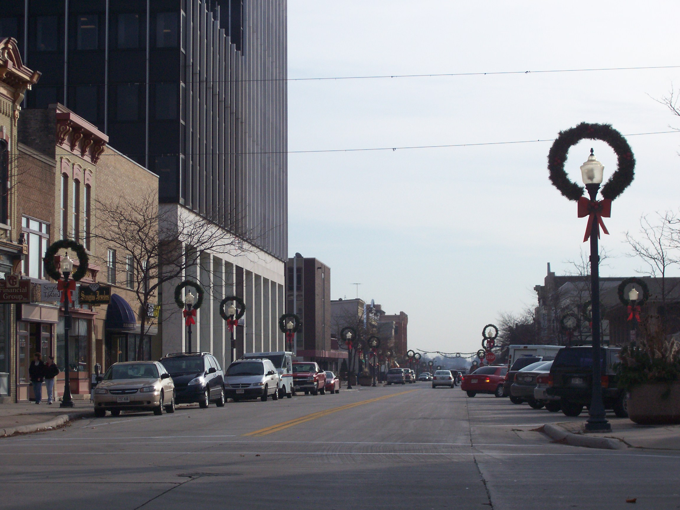 8th Street in downtown Sheboygan, Wisconsin, USA. The U.S. Bank building is the dark building on the left.